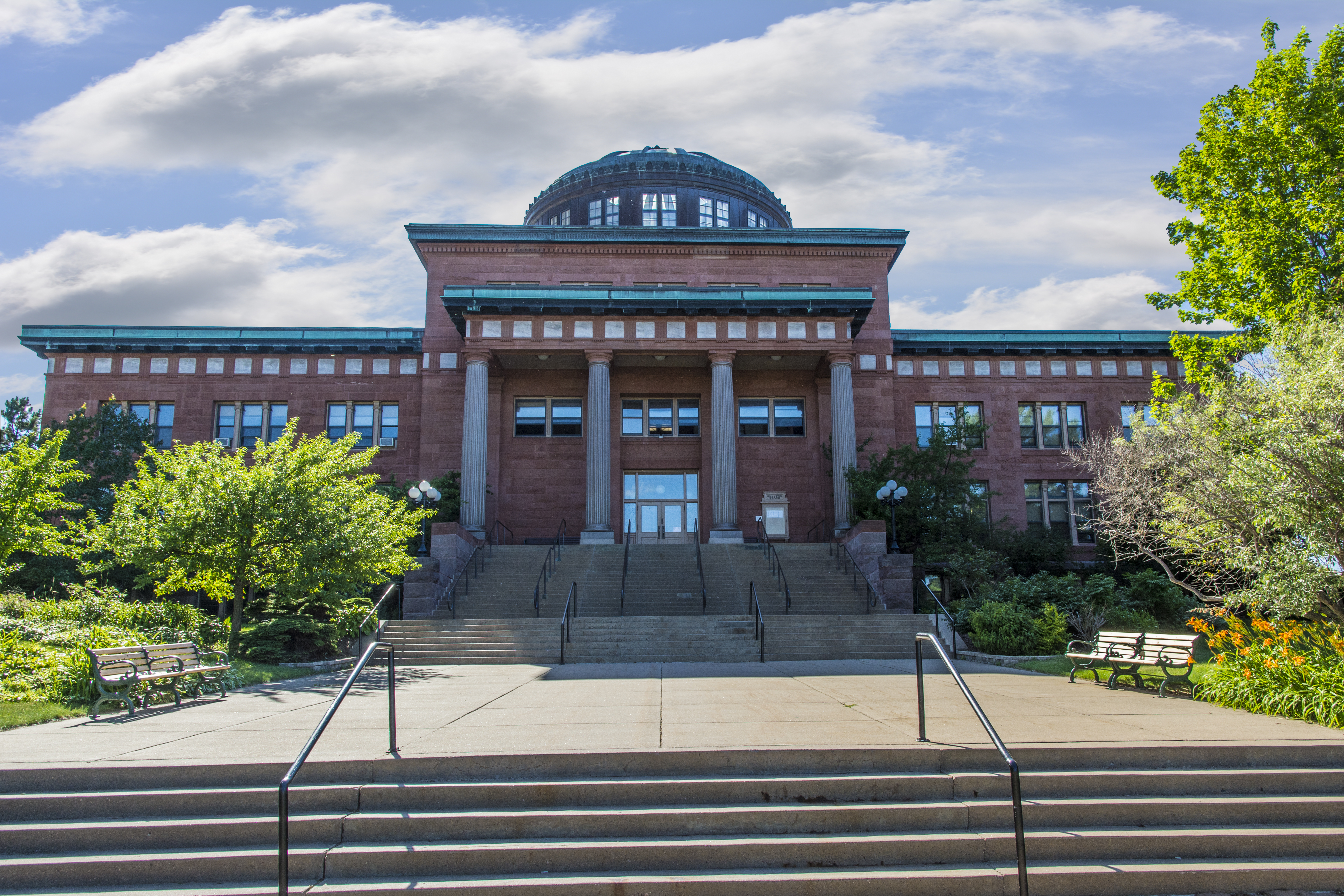 Marquette County Michigan Courthouse (Marquette)